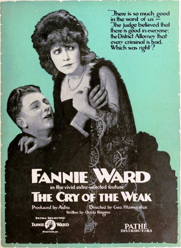 Ad for the American film The Cry of the Weak (1919) with Fannie Ward and an unidentified actor, in the color inserts after page 690 of the May 3, 1919 Moving Picture World.